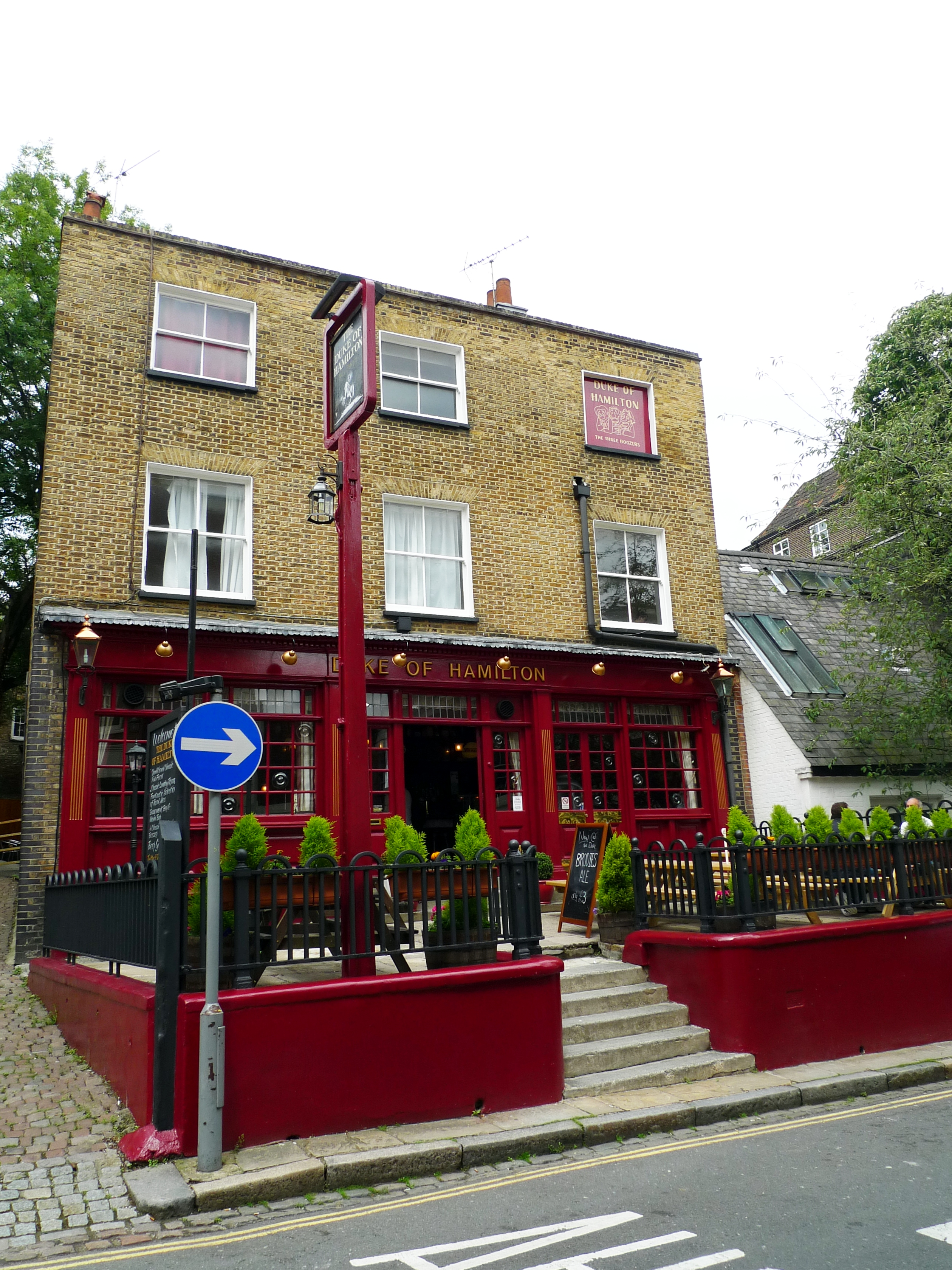 Tucked away between Hampstead station and the south end of the Heath. Not a bad pub, and it has some nice ales on tap. (Older photo of it.) Address: 23-25 New End. Owner: Three Boozers (website); Wellington Pub Co (former). Links: Randomness Guide to London Fancyapint Beer in the Evening